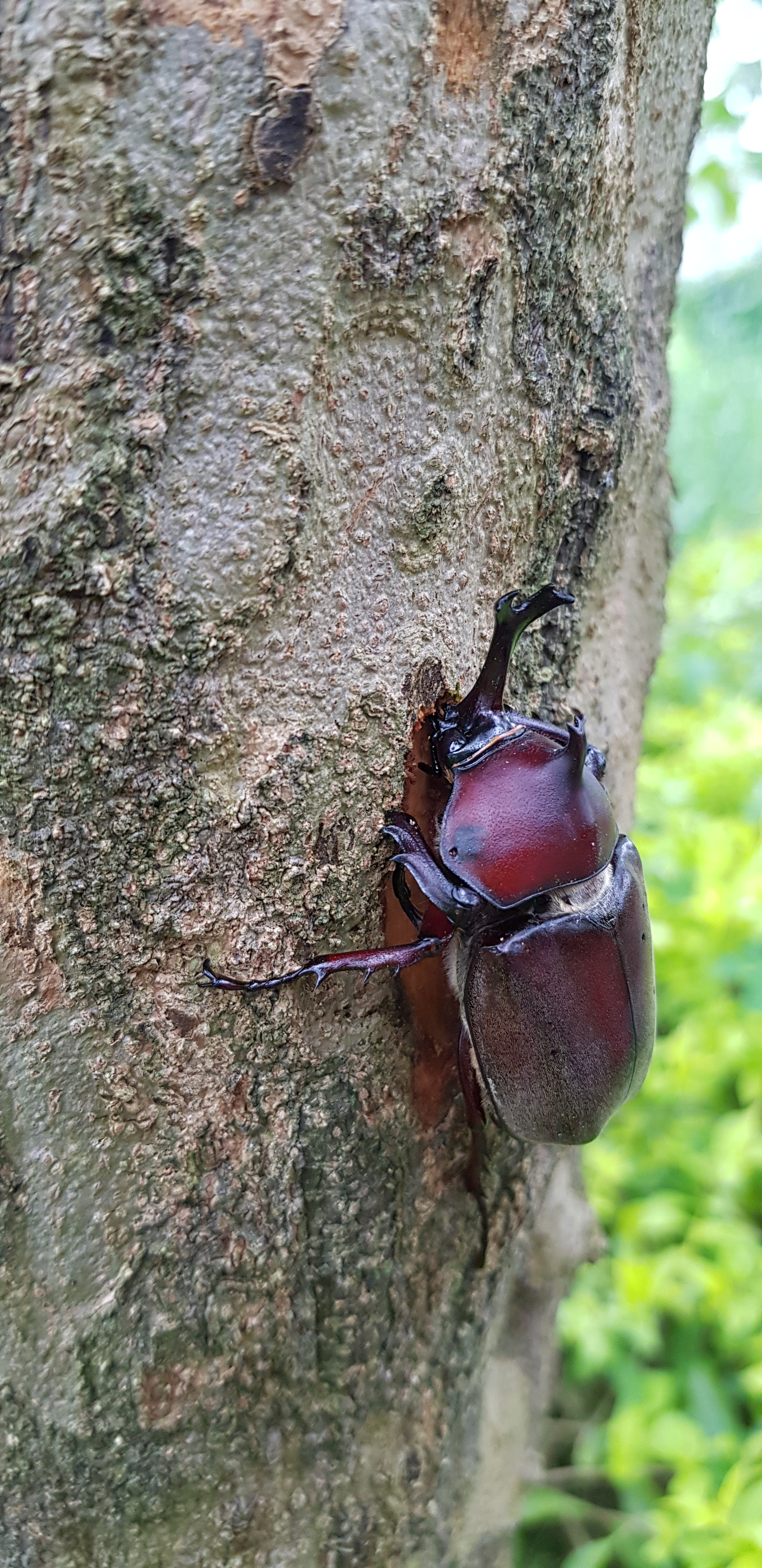 A rhinoceros beetle sucking sap out of a Griffith's Ash